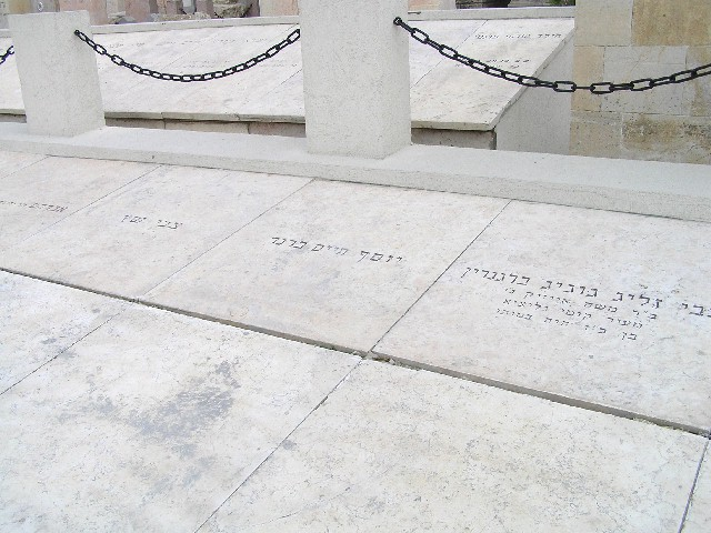 Tomb of Hebrew author Joseph Haim Brener in Trumpeldor cemetery in Tel Aviv February 2006, by Eman